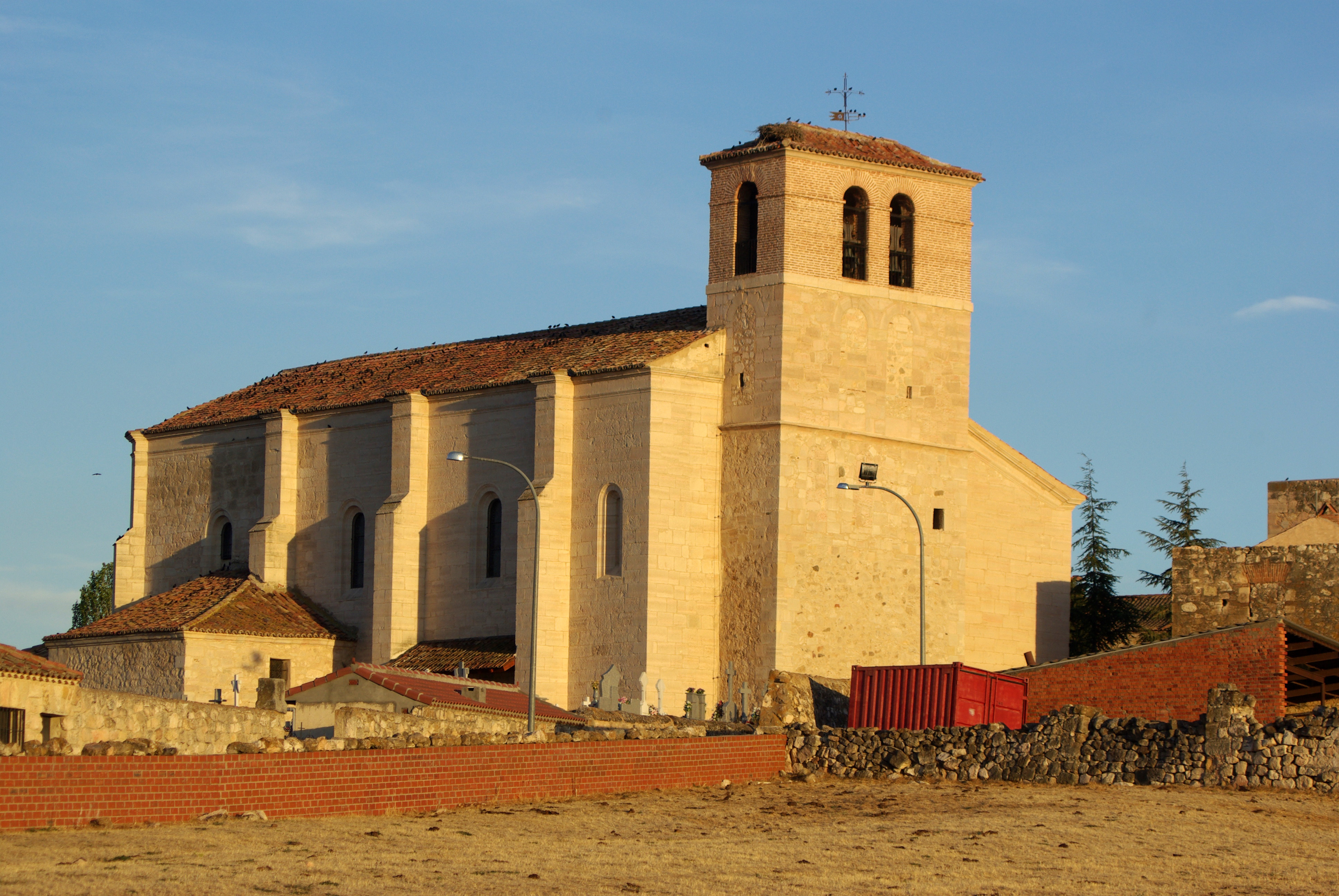 Church of Santo Tomás de Canterbury in Vegas de Matute (Segovia, Spain).